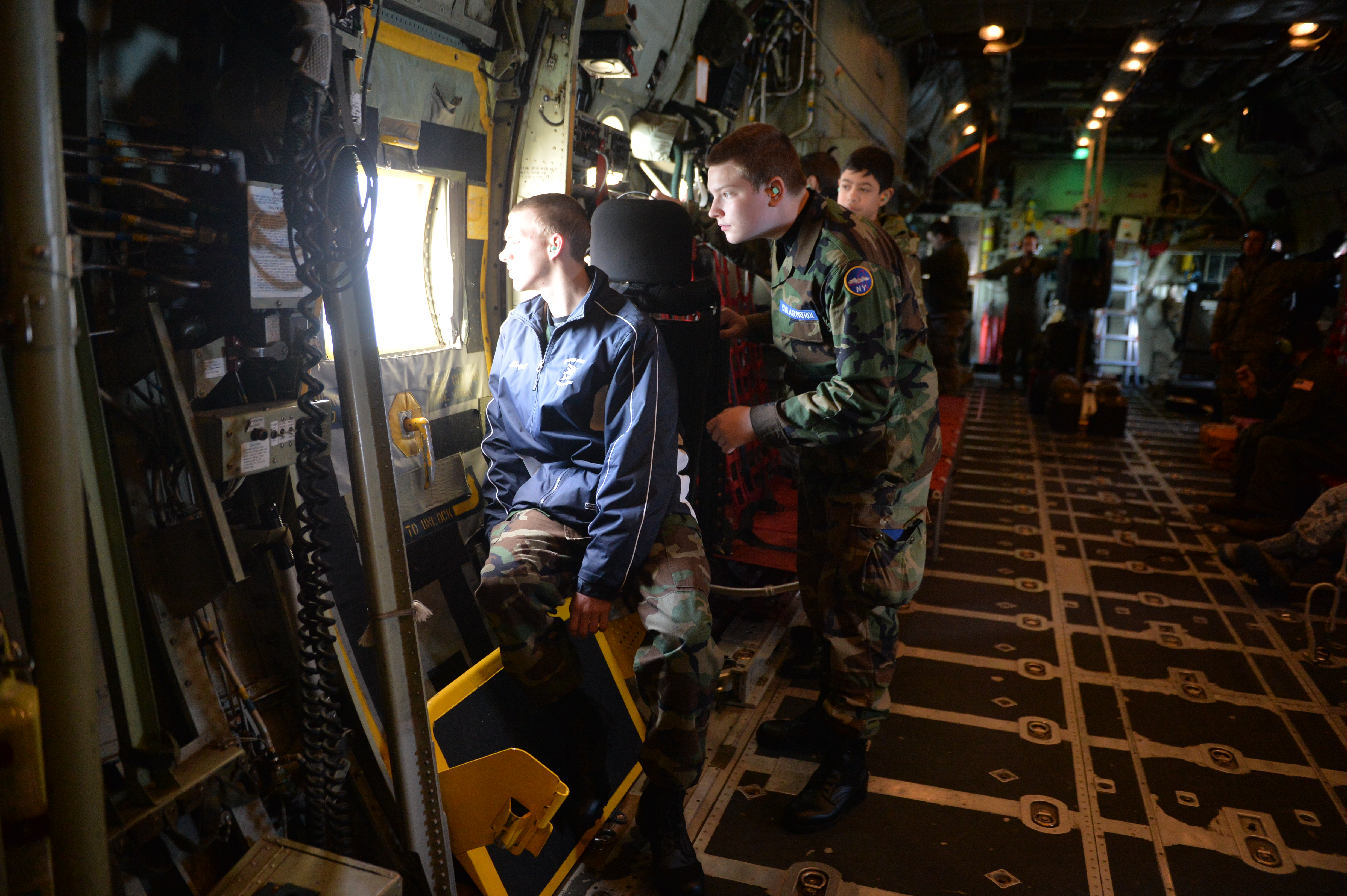 WESTHAMPTON BEACH, NY - Members of the 9th Suffolk Cadet Squadron, Civil Air Patrol rides aboard an HC-130 with the 106th Rescue Wing on December 12, 2014. Cadets were able to speak firsthand with aircrew and observe their training methods during the hour-long flight. (New York Air National Guard / Senior Airman Christopher S Muncy / released)